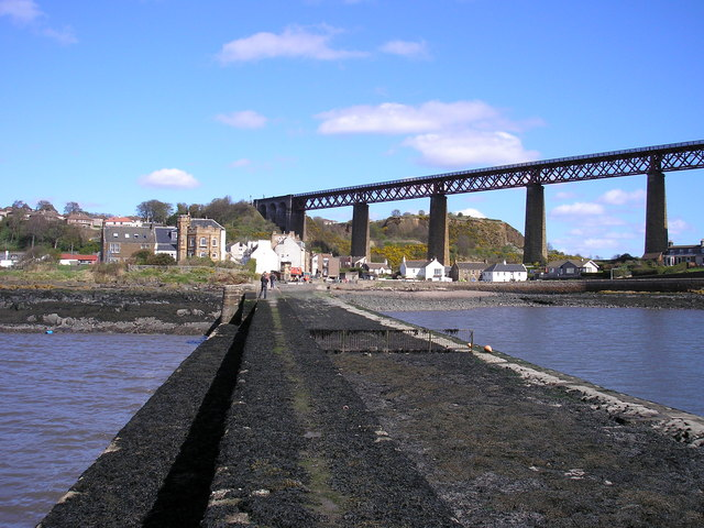 North Queensferry from the new pier